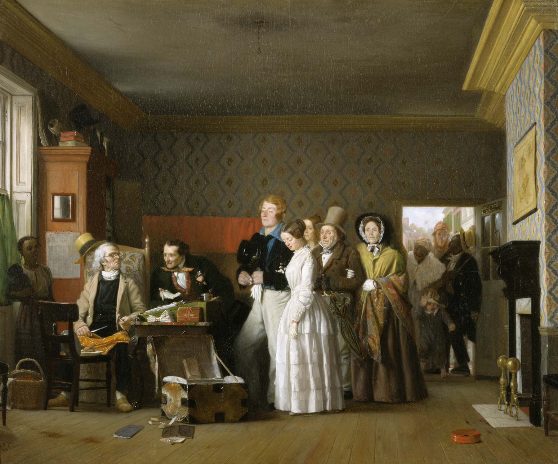 Richard Caton Woodville left his native Baltimore to study in Düsseldorf under the direction of Carl Ferdinand Sohn, a noted German genre painter. He remained abroad for most of his brief career, dying in London at the age of 30. While residing in Europe, he painted from memory a number of genre scenes recalling his youth in Baltimore. In this example executed in Paris, a lively wedding party has interrupted a justice of the peace in the course of his chicken dinner. This work illustrates the artist's remarkable powers of characterization and shows his meticulous attention to detail. The goat-hair chest, his trademark red spittoon, and the Franklin Almanac were common household items of the period.